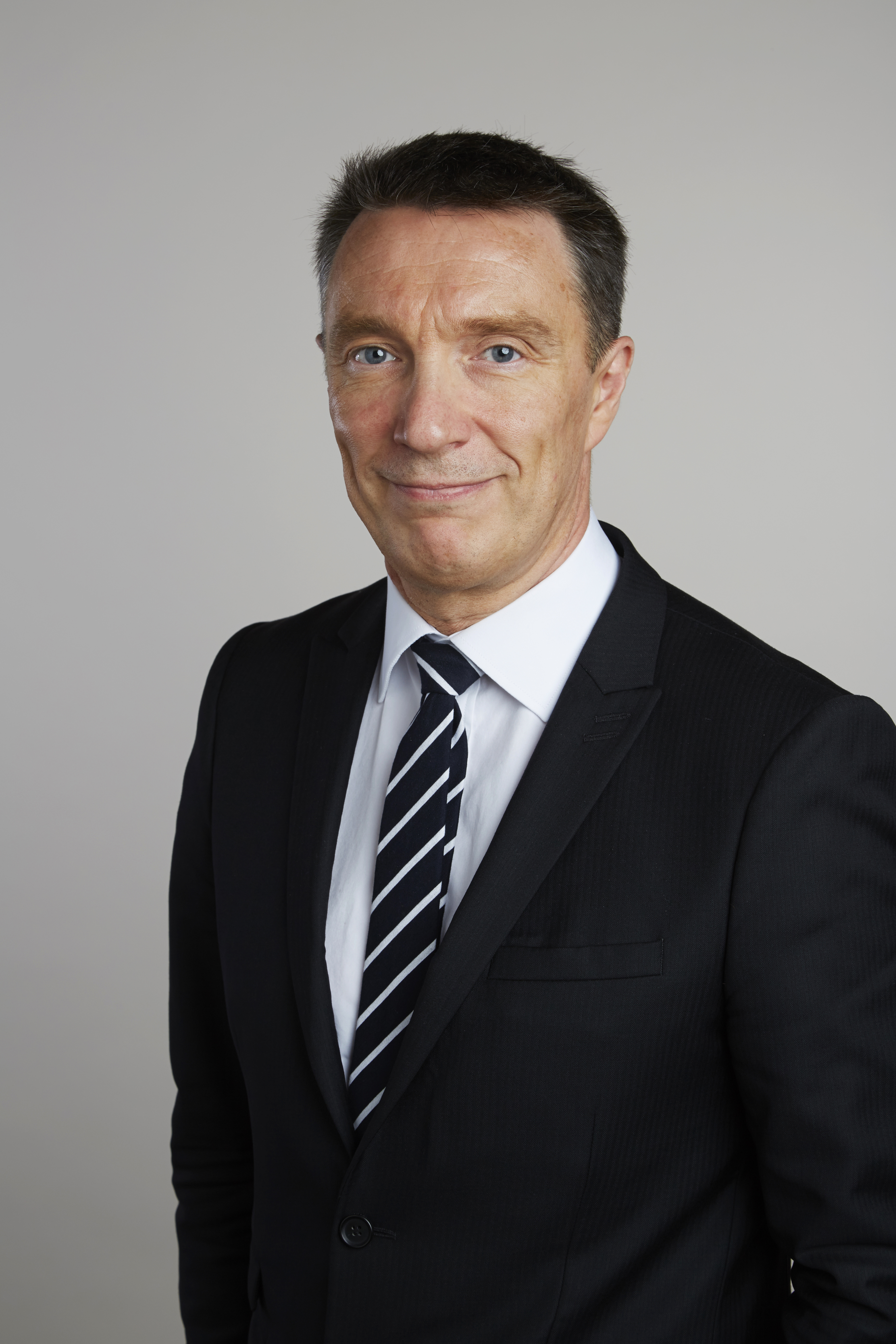 Andrew Ian Cooper is distinguished for his outstanding and broad contributions to the design-based discovery of a range of functional materials encompassing polymers prepared using supercritical fluid solvents, templated structures, nanoparticles, and porous solids. In particular, his innovative work has introduced new classes of materials such as porous organic polymers with extended conjugation, and molecular organic crystals with high levels of porosity, which have changed the perception of what is possible in this field. In collaboration with computational chemists, he has developed strategies for the supramolecular synthesis of functional molecular crystals in a more designed way. Attribution: The Royal Society